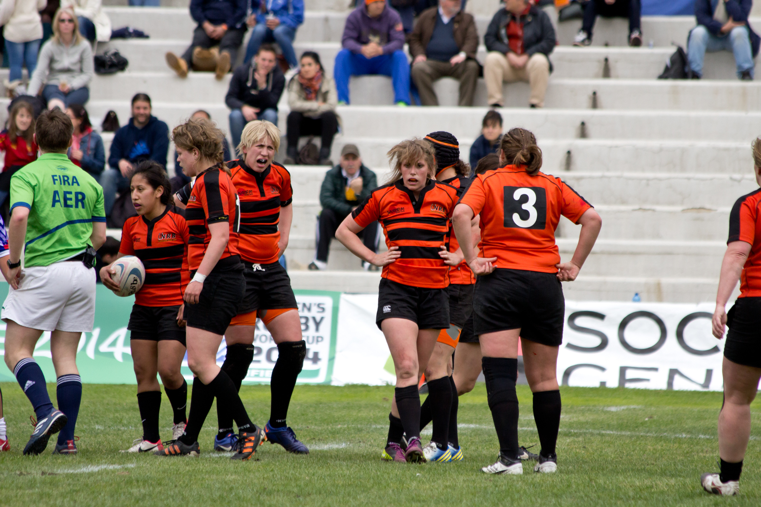 Game of the 2013 Women's European Qualification Tournament between Samoa and the Netherlands 33(b)-14.